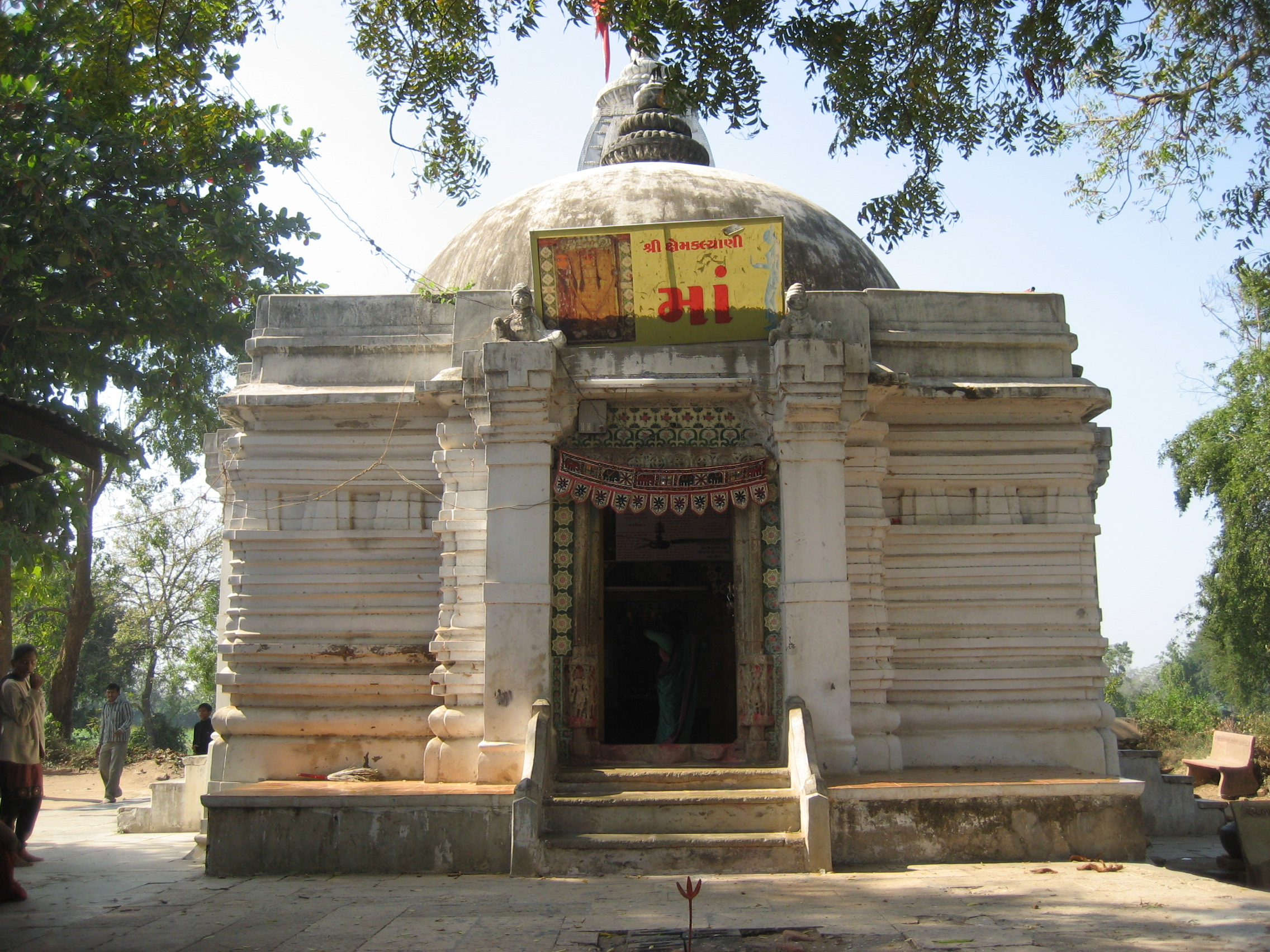 Shree Kshemkalyani Mataji Temple Sojitra